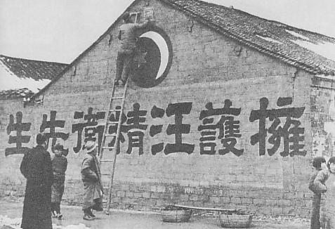 Wang Jingwei Government Slogan "Protect Wang Jingwei!"